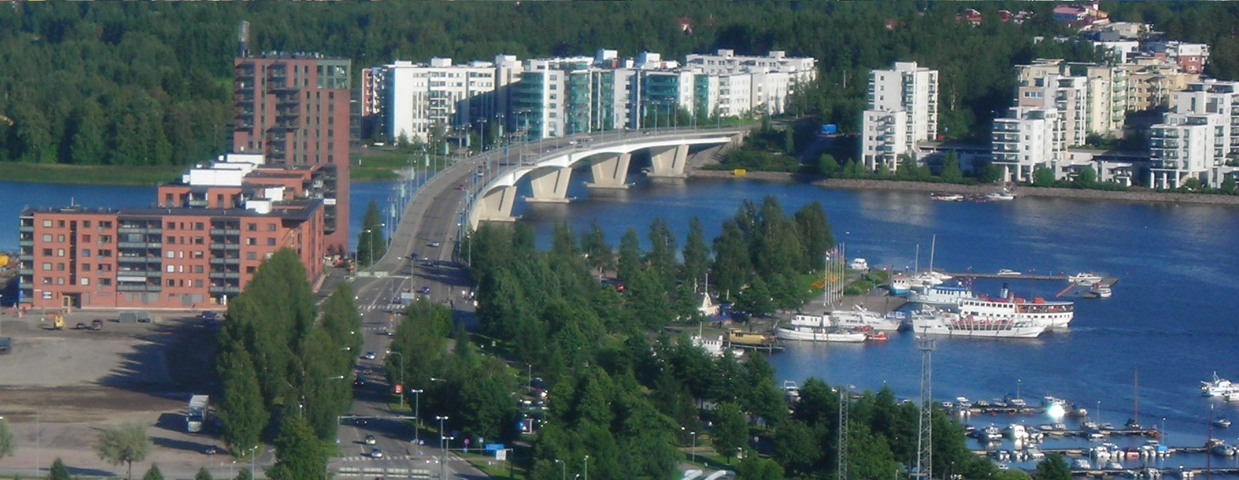 Jyväskylä: Kuokkala Bridge over lake Jyväskylä and Jyväskylä harbour, July 21st 2008. Taken from the Harju tower. Kuokkala behind the bridge, on the left Lutakko.